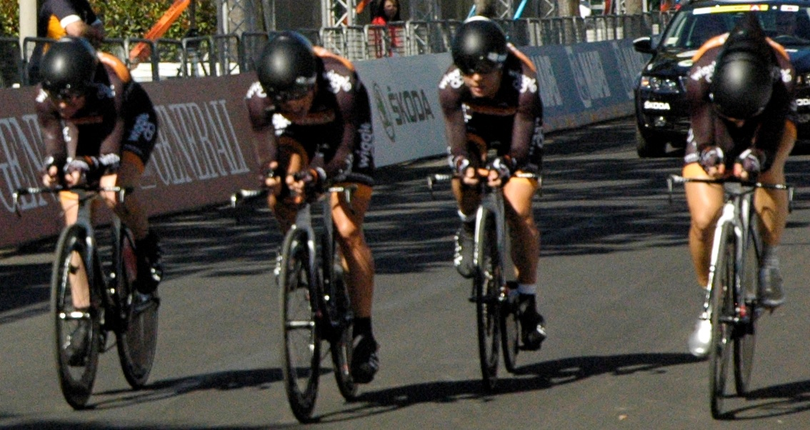 2013 UCI Road World Championships – Women's team time trial Wiggle-Honda